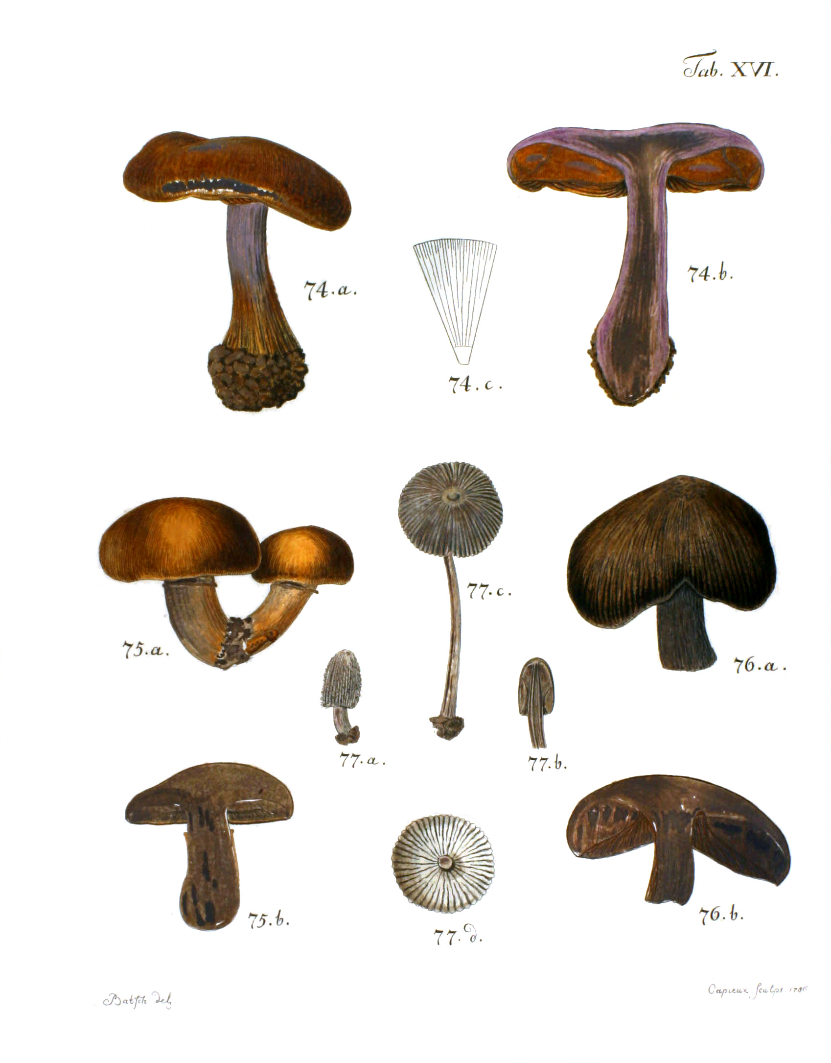 Plate VI from August Batsch Book: Elenchus Fungorum. Continuatio Prima Description of the mushrooms by the author (in German und Latin): 74 a-b. Agaricus subpurpurascens, now Cortinarius purpurascens 75 a-b. Agaricus subannulatus, now Tricholoma batschii 76 a-b. Agaricus atricapillus now Pluteus cervinus 77 a-d. Agaricus narcoticus, now Coprinopsis narcotica